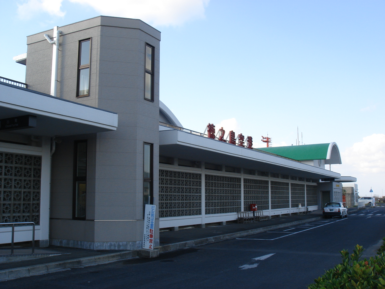 Tokunoshima Airport